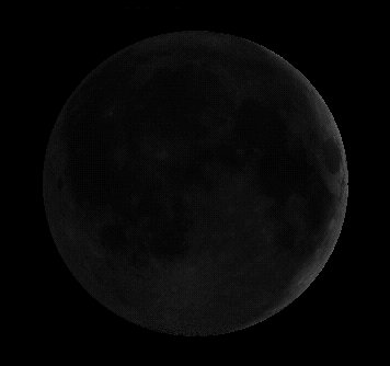 A crescent moon.